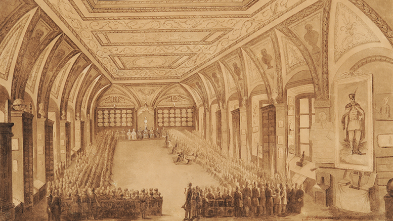 Sketch of the opening ceremony of the Museum of Antiquities in Vilnius